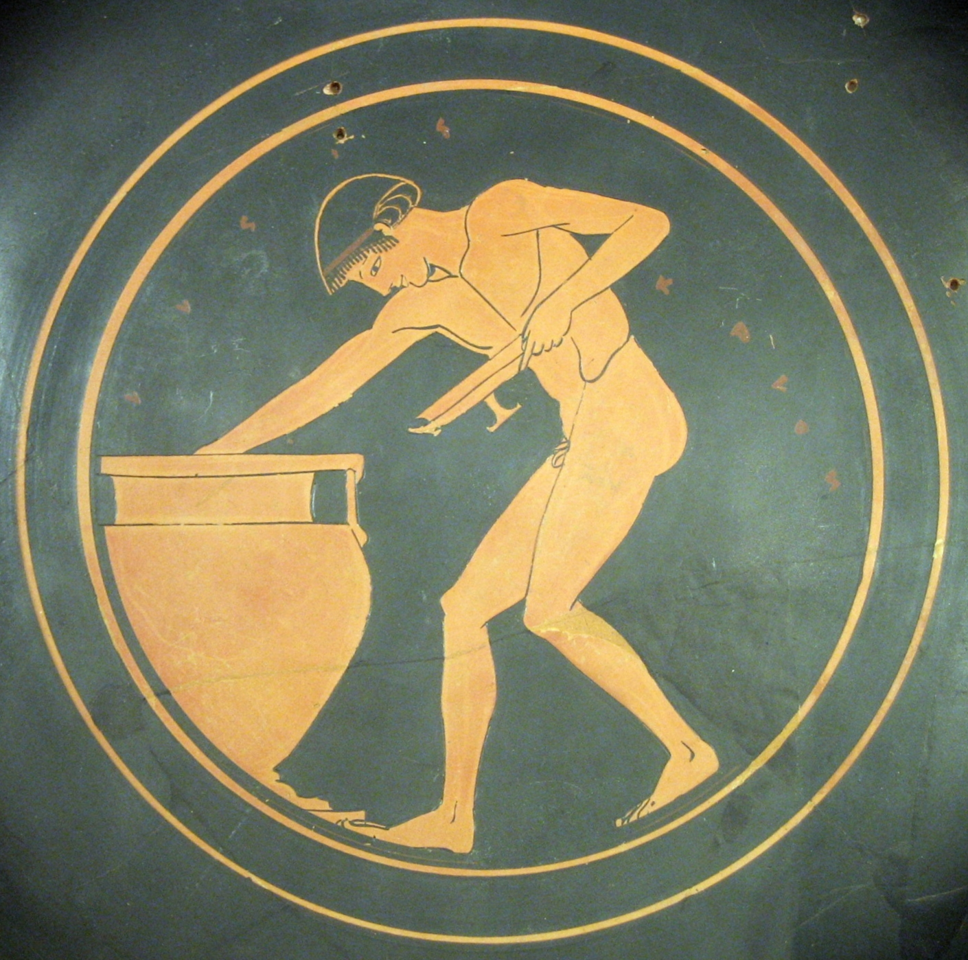 Youth filling his cup from a krater (kalos inscription to Lysis). Tondo of an Attic red-figure kylix attributed to the Antiphon Painter, 490–480 BC. Museum of Cycladic Art (Athens), Inv. 781.